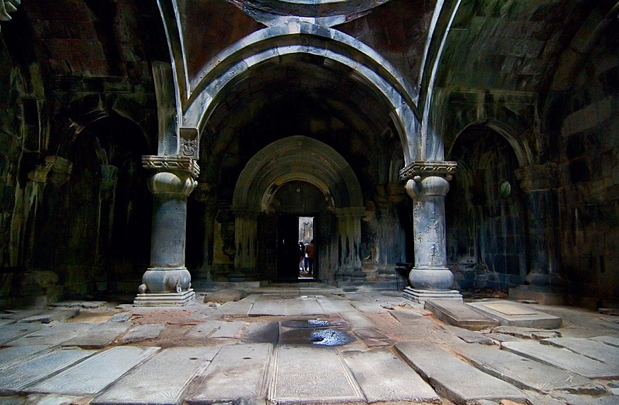 Sanahin Ch., Armenia. View: indoor